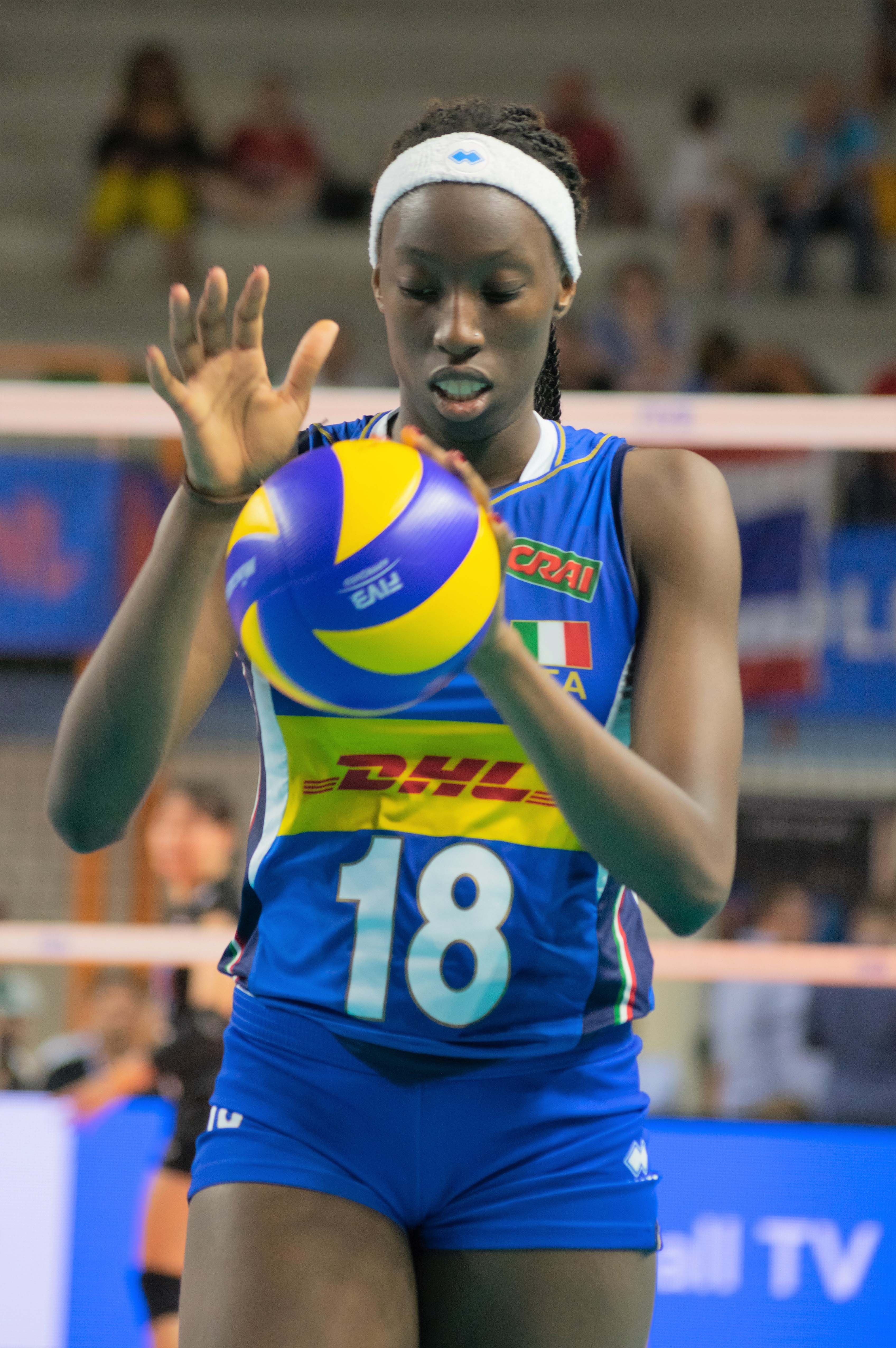 Volley Italia - Paola Egonu